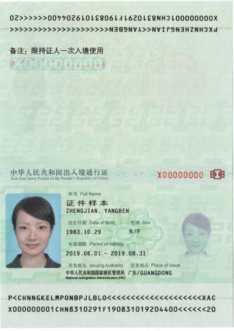 Observations and Personal Info Page of People's Republic of China Entry and Exit Permit